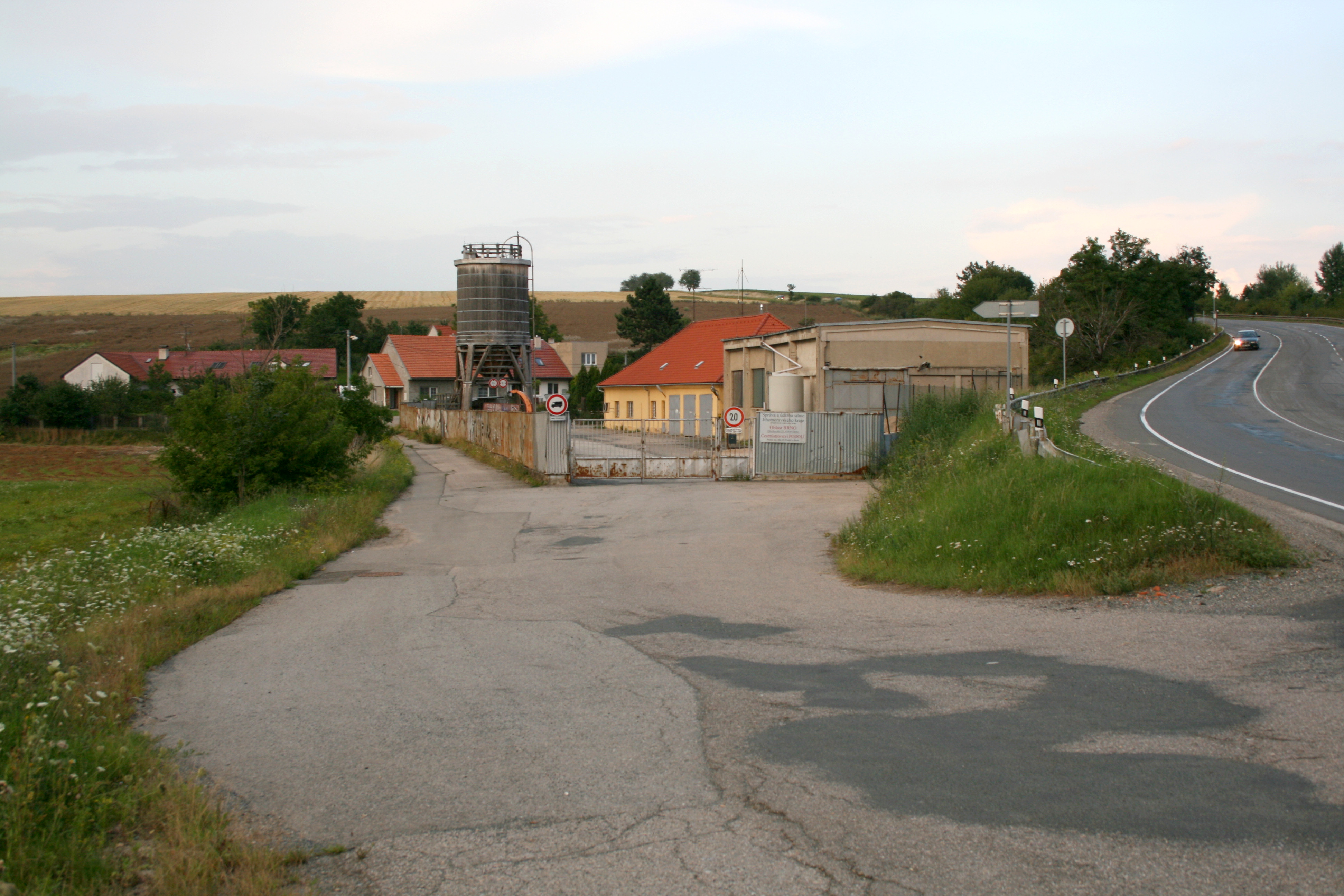 Former coaching inn at Pindulka, Brno-Country District.